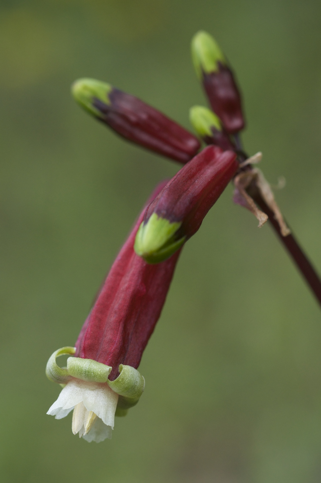 Dichelostemma ida-maia — common name: Firecracker flower. Photographed along Covelo Road, Mendocino County, California. Species from California and Oregon